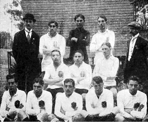 Team of Argentino de Rosario (current "Gimnasia y Esgrima de Rosario" - GER) that played C.A. San Isidro in Copa de Honor "Municipalidad de la Ciudad de Buenos Aires".